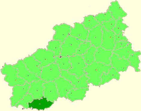 Tver Oblast map by Al Silonov